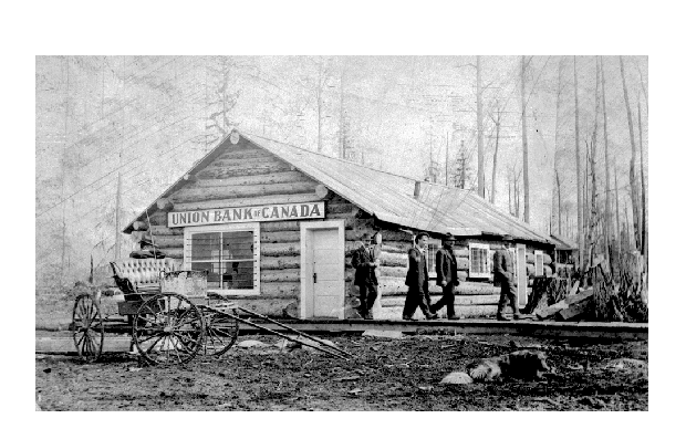 Union Bank of Canada in Hazelton, British Columbia.